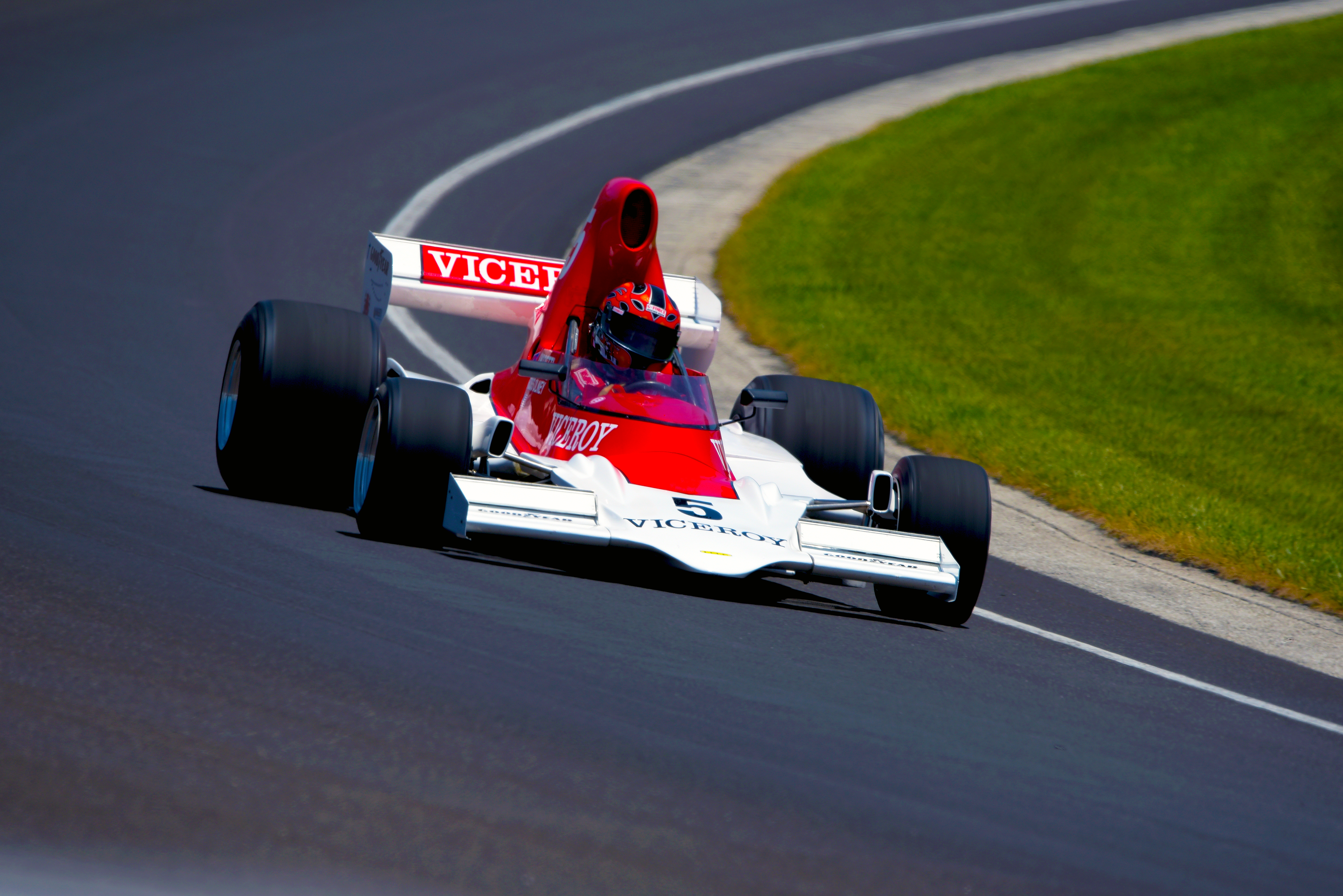 Lola T400 being driven at the Indianapolis Motor Speedway, owned and driven by Ross D. Olney